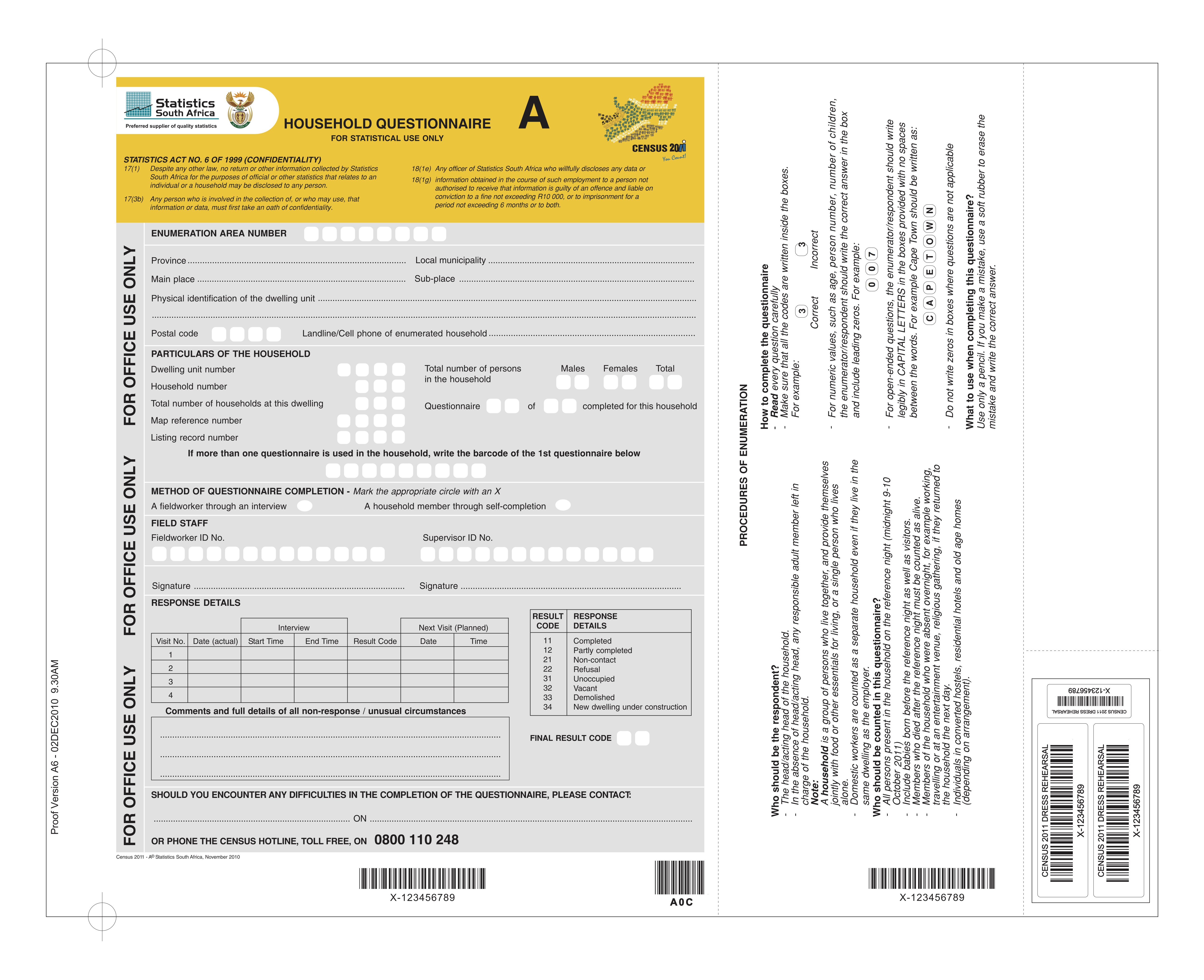 This is the cover page of the 2011 South African National Census for questionnaire A.